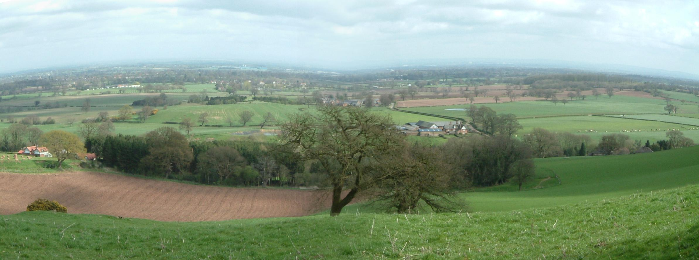 The Cheshire Plain panorama - photo taken from Mid-Cheshire Ridge